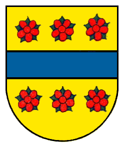 Coat of arms of Rielasingen in Rielasingen-Worblingen